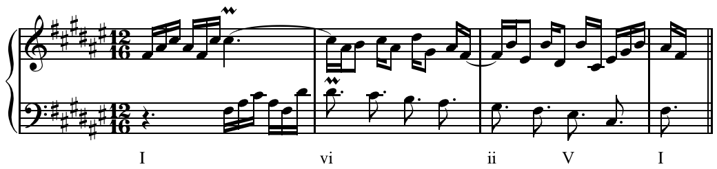 vi-ii-V-I in Bach's WTC I, Prelude in F-sharp.